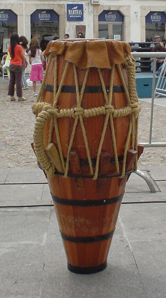 Picture taken in the street of an Atabaque